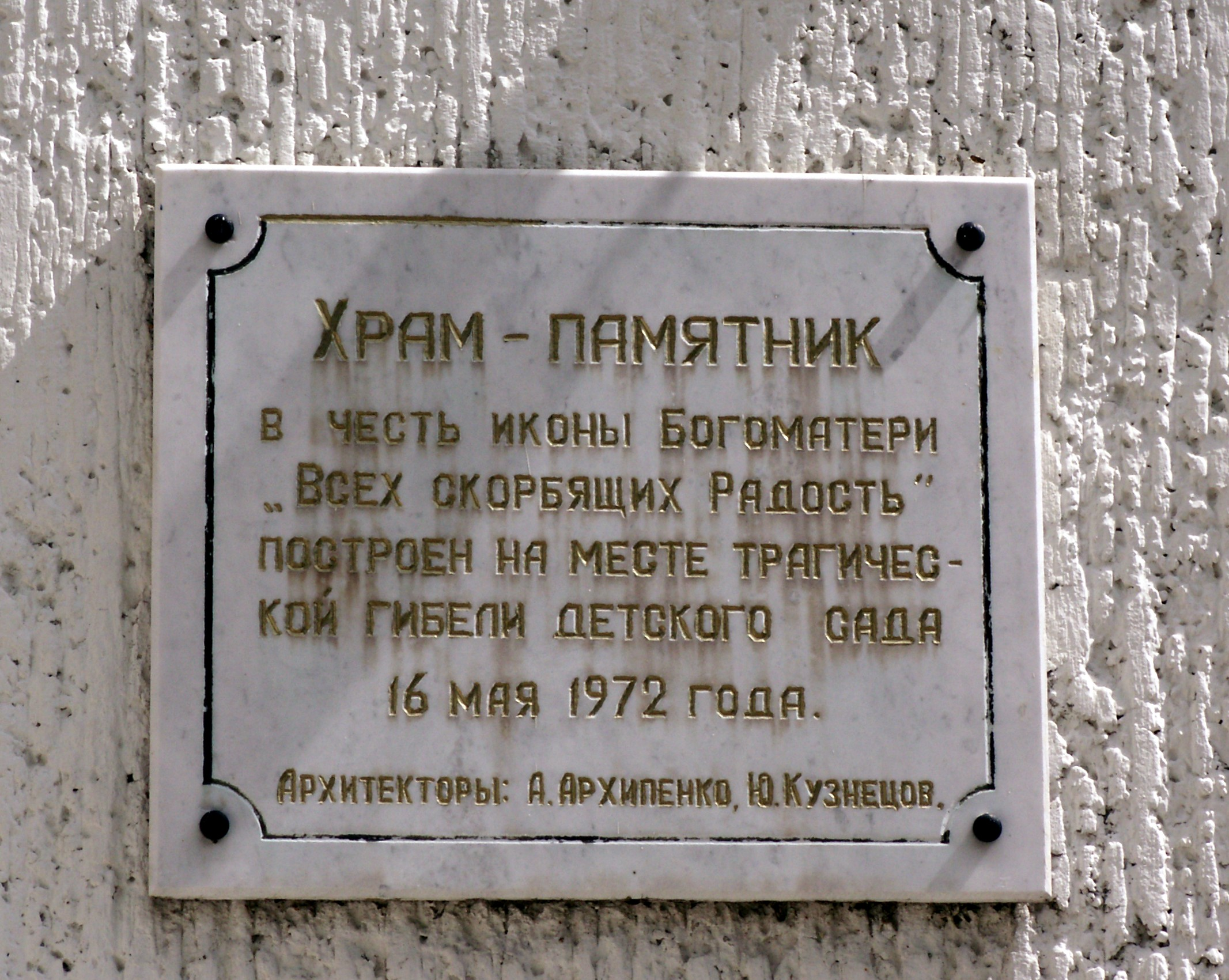 Place of death in aviacatastrophe 22 children's in Svetlogorsk in Kaliningrad oblast